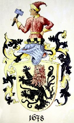 Klopfer family crest